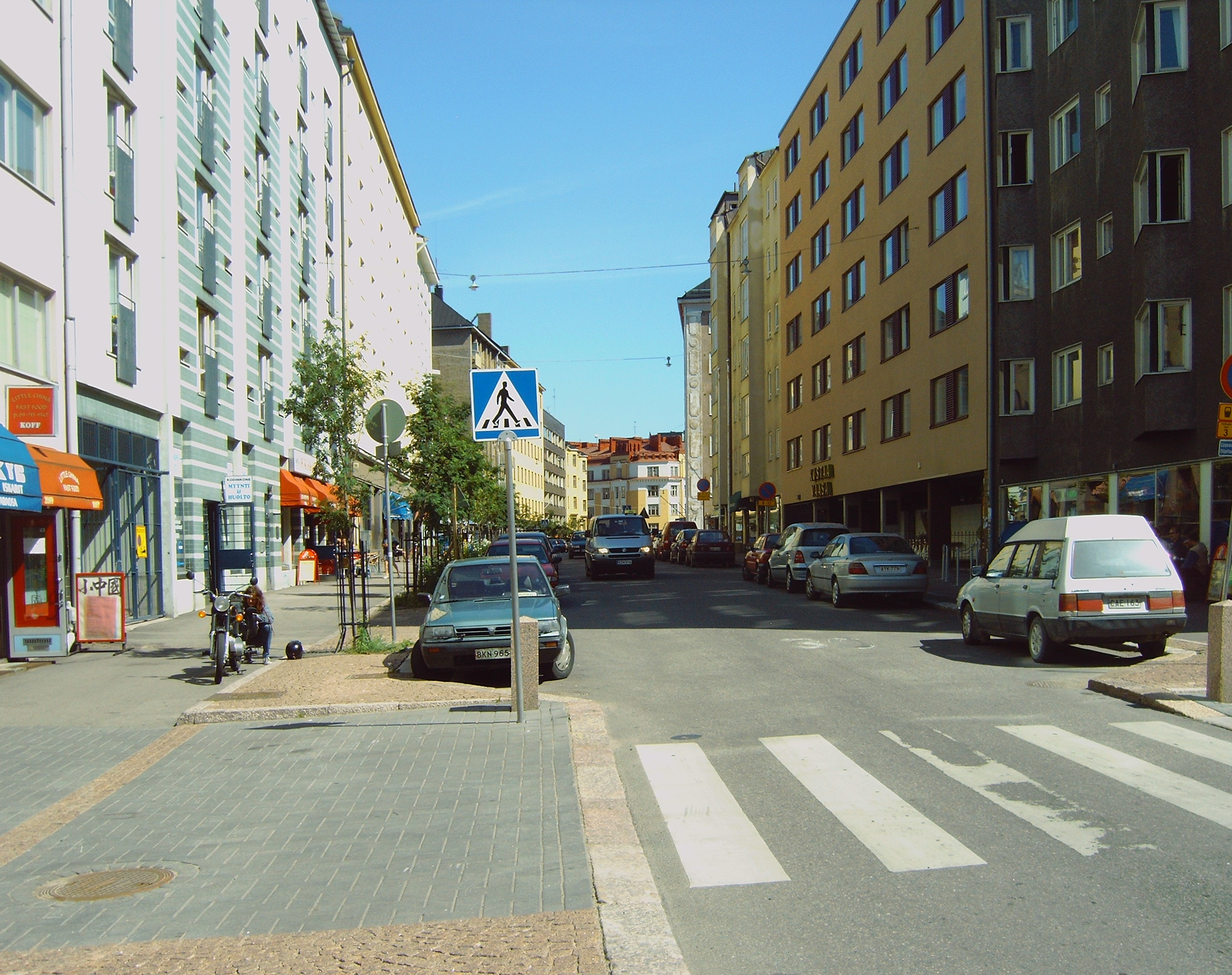 Vaasankatu in Harju, Helsinki, Finland.